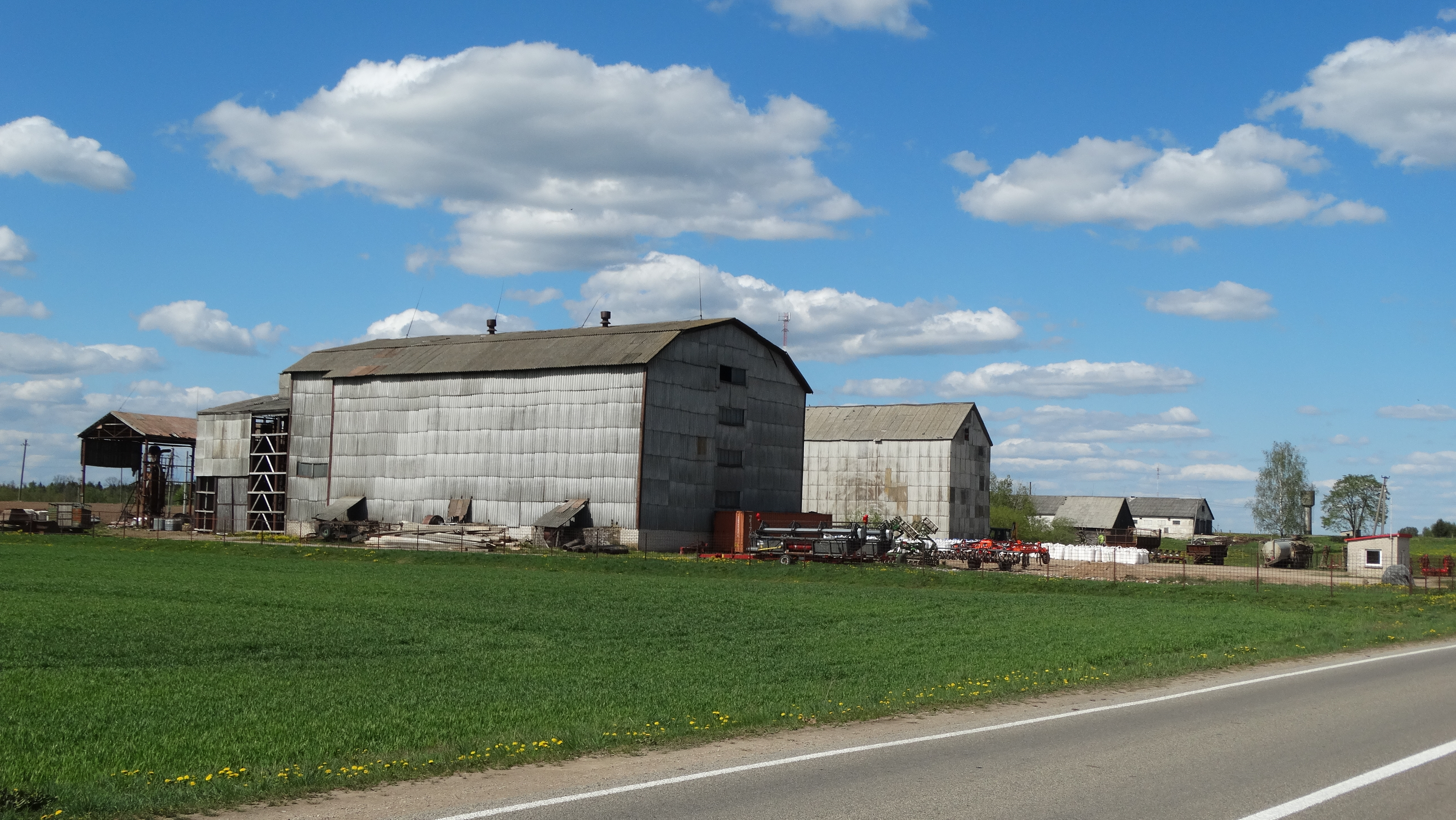 Grinkiškis, Radviliškis District, Lithuania